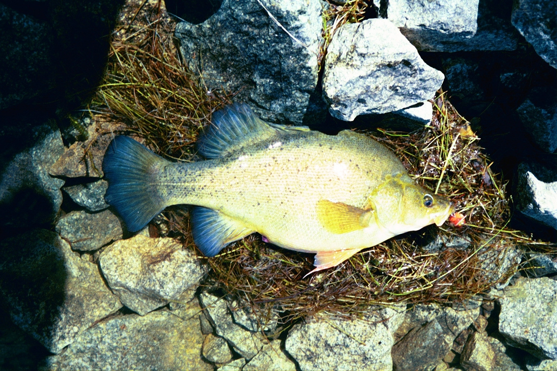 A large female Golden perch Macquaria ambigua. The belly heavily distended with roe (eggs), the dorsal spines (unfortunately partially obscured by a rock), and the fishing lure in its mouth. Golden perch from impoundments are deeper-bodied and more heavily built than river fish due to greater food resources.